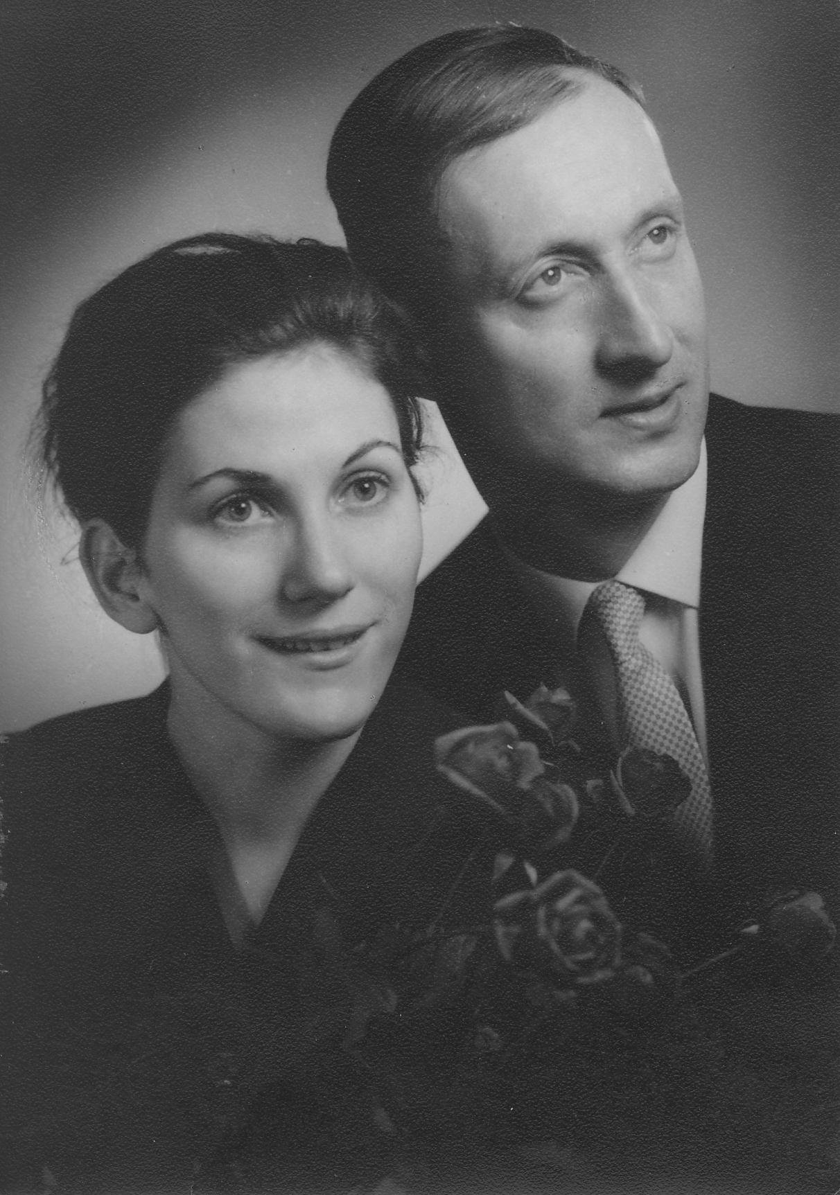 nuptial picture of Jurij Treguboff and Anita